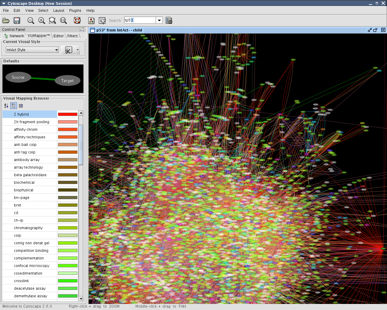 PPI Network aroung p53 gene generated from IntAct dataset. Visualized by Cytoscape 2.6. Edge colors are mapped to interaction detection methods.